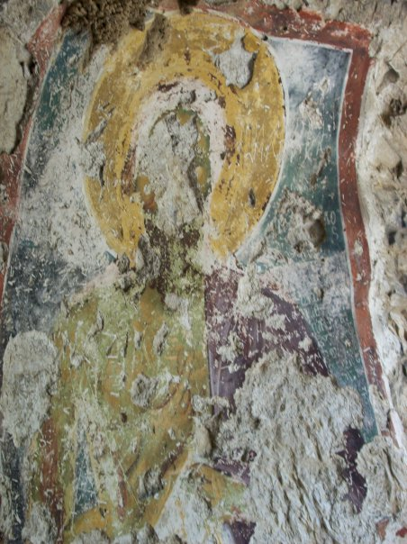 Fresco in one of the 5 cave churches in Pešti gorge in Macedonia